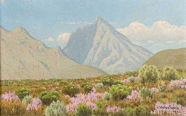 Jan Ernst Abraham Volschenk (1853-1936), Along the Langeberg near Garcia's Pass, oil on canvas 22 by 34.5cm, signed, dated 1935